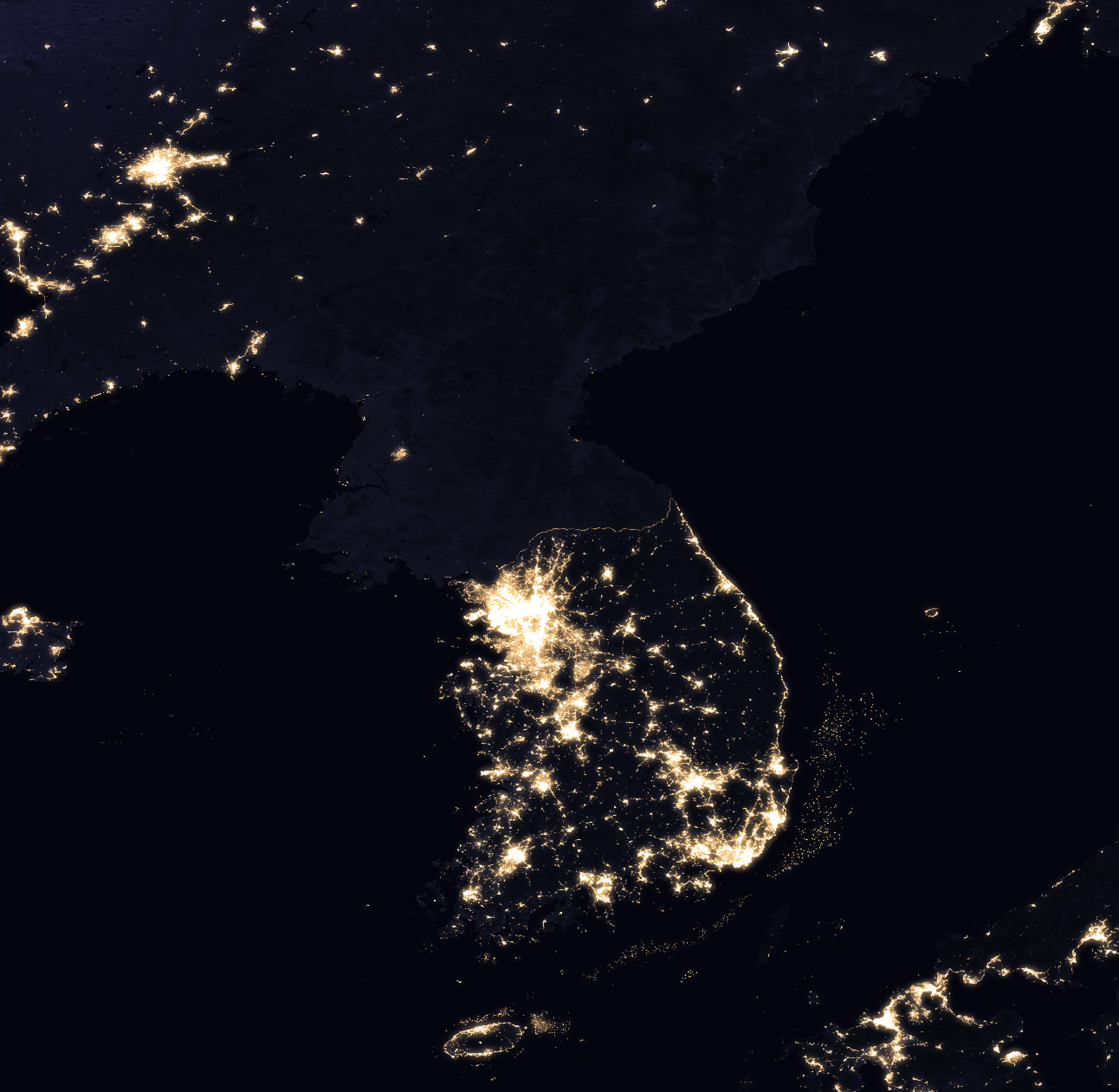 Earth at Night: Flat Maps. Satellite picture displaying the Korean peninsula at night.